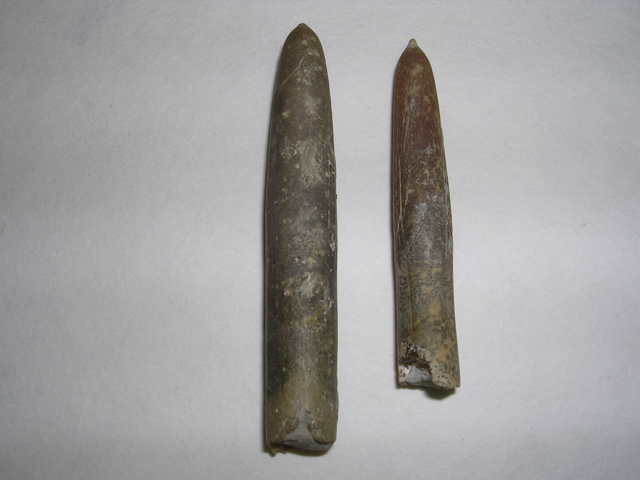 Belemnitella mucronata from the Late Cretaceous of Germany, in an educational collection of the Faculty of Sciences of the University of Corunna.